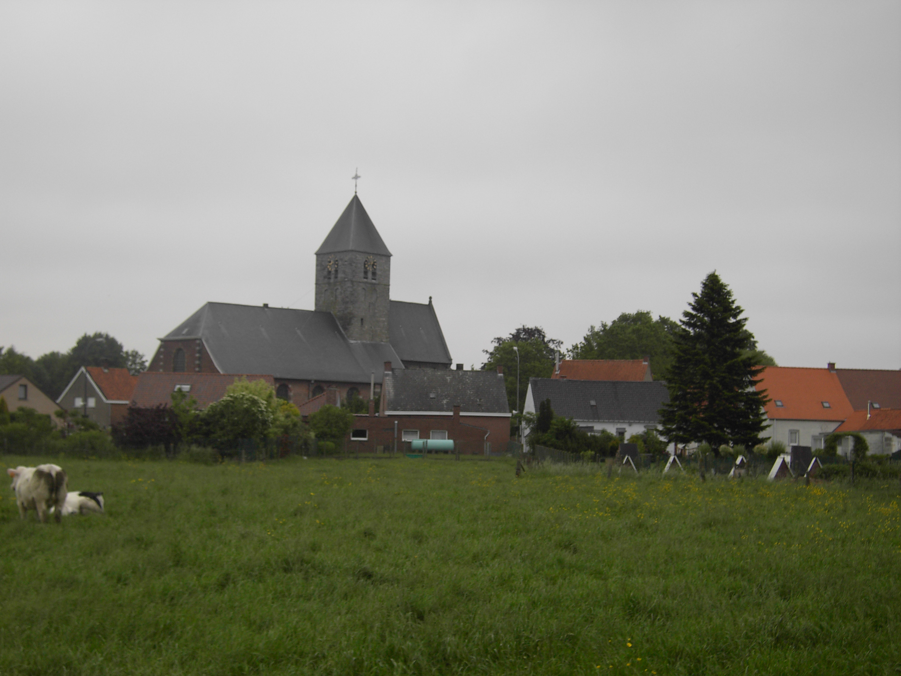 Village of Elsegem, Flandres, Belgium, with village church